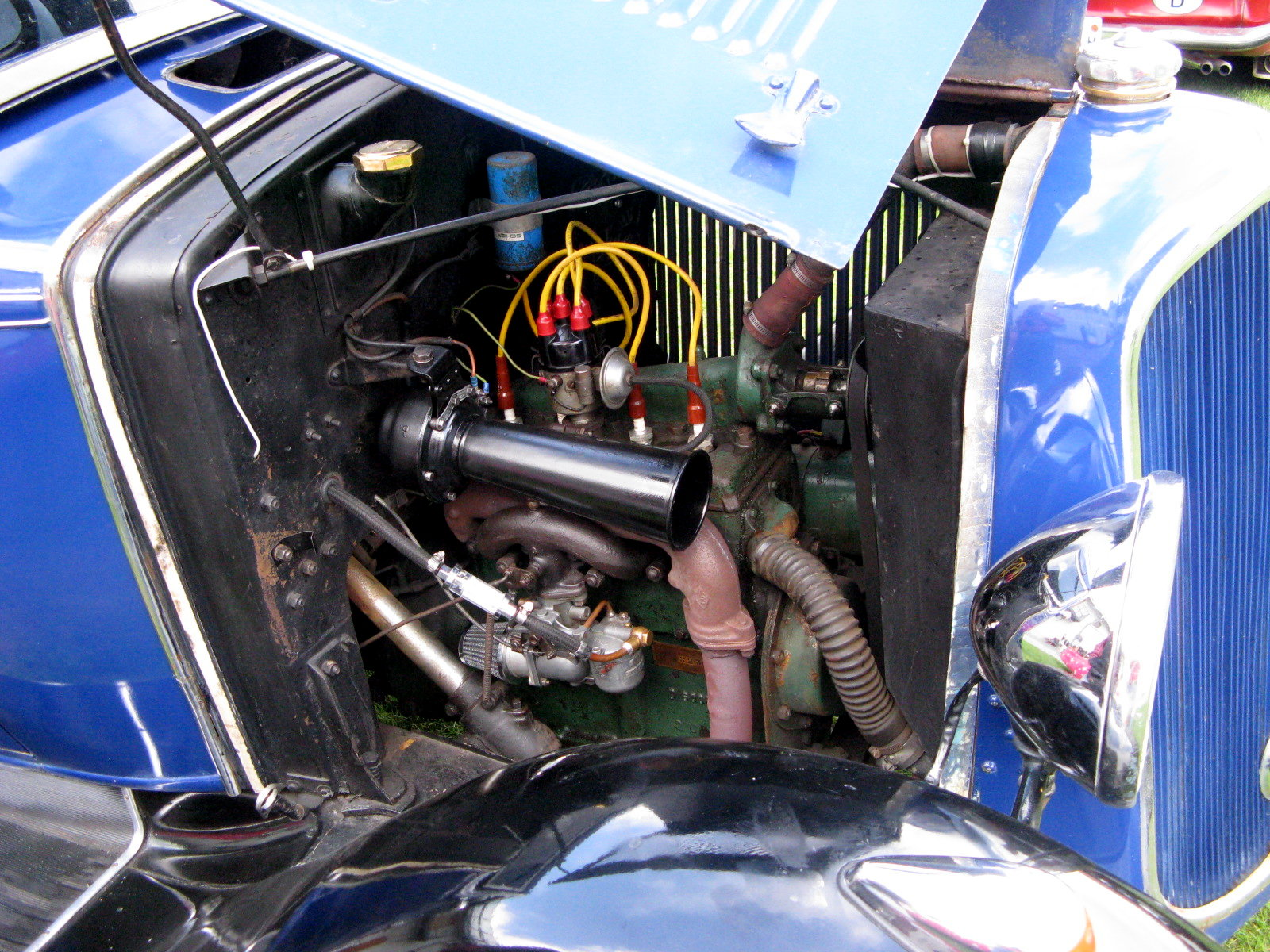 Engine of a 1934 Renault Monaquatre YN1 at vintage vehicles show in Fürstenfeld (Bavaria)